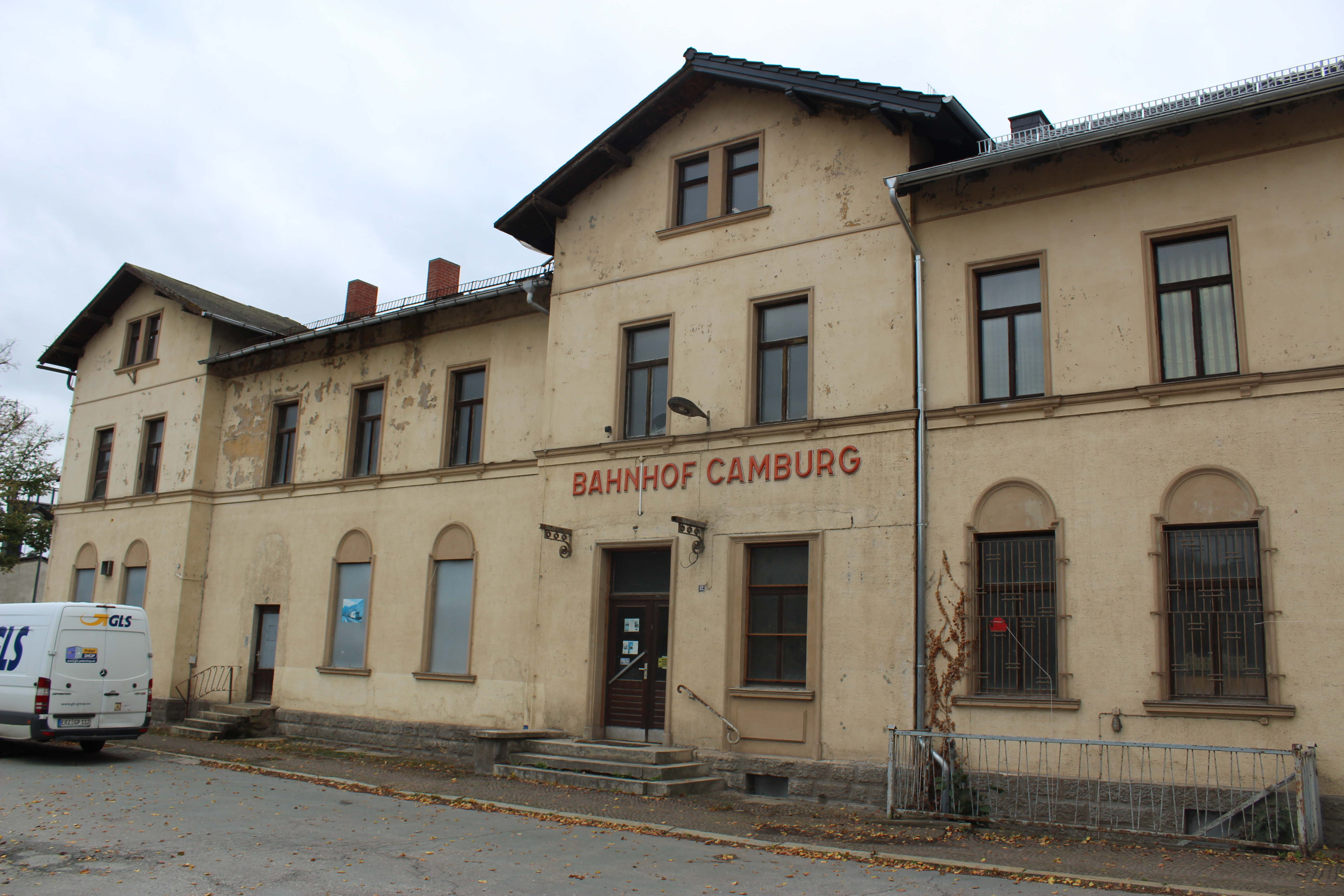 train station Camburg (Saale), station building